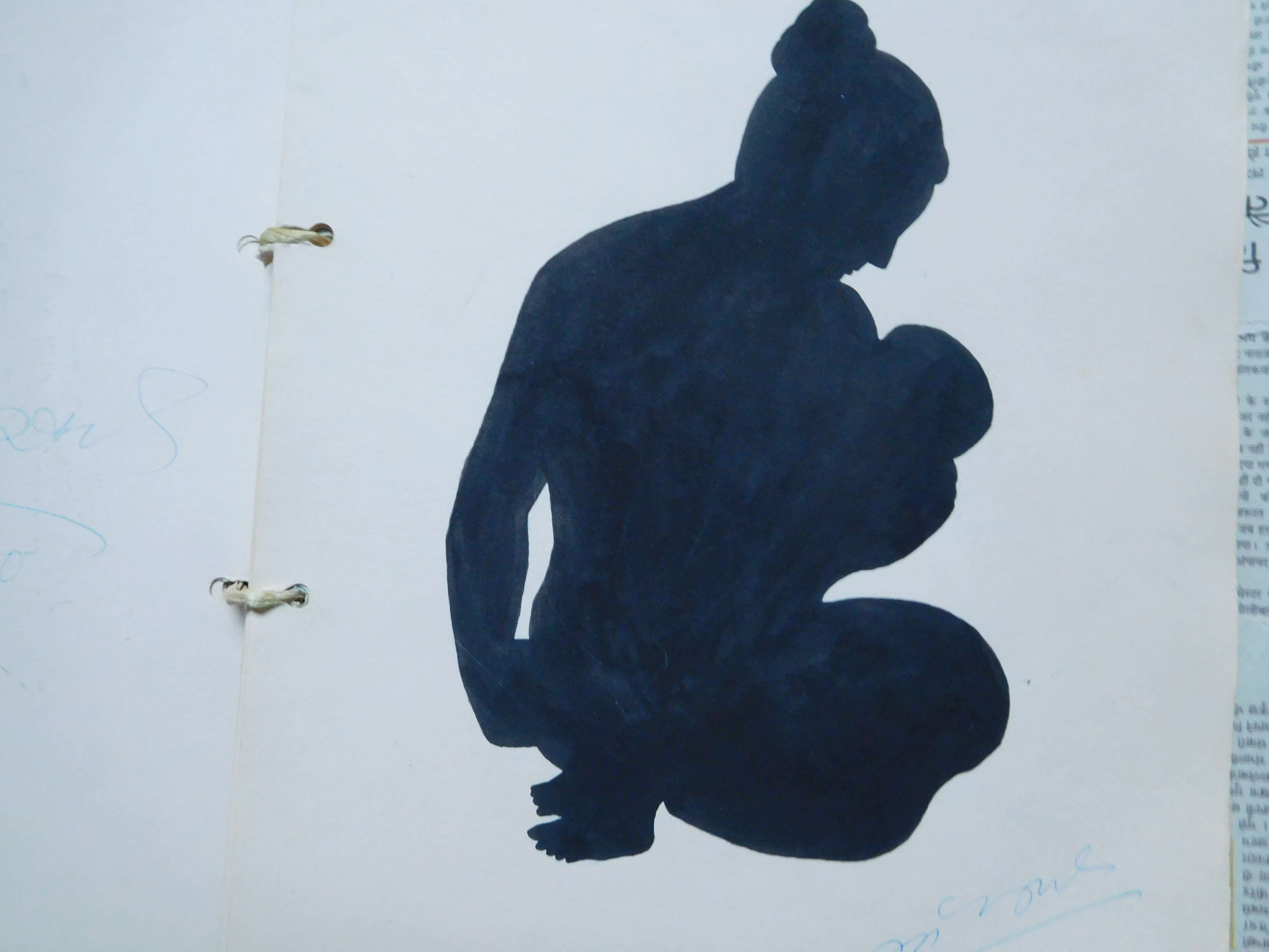 Expression publishing